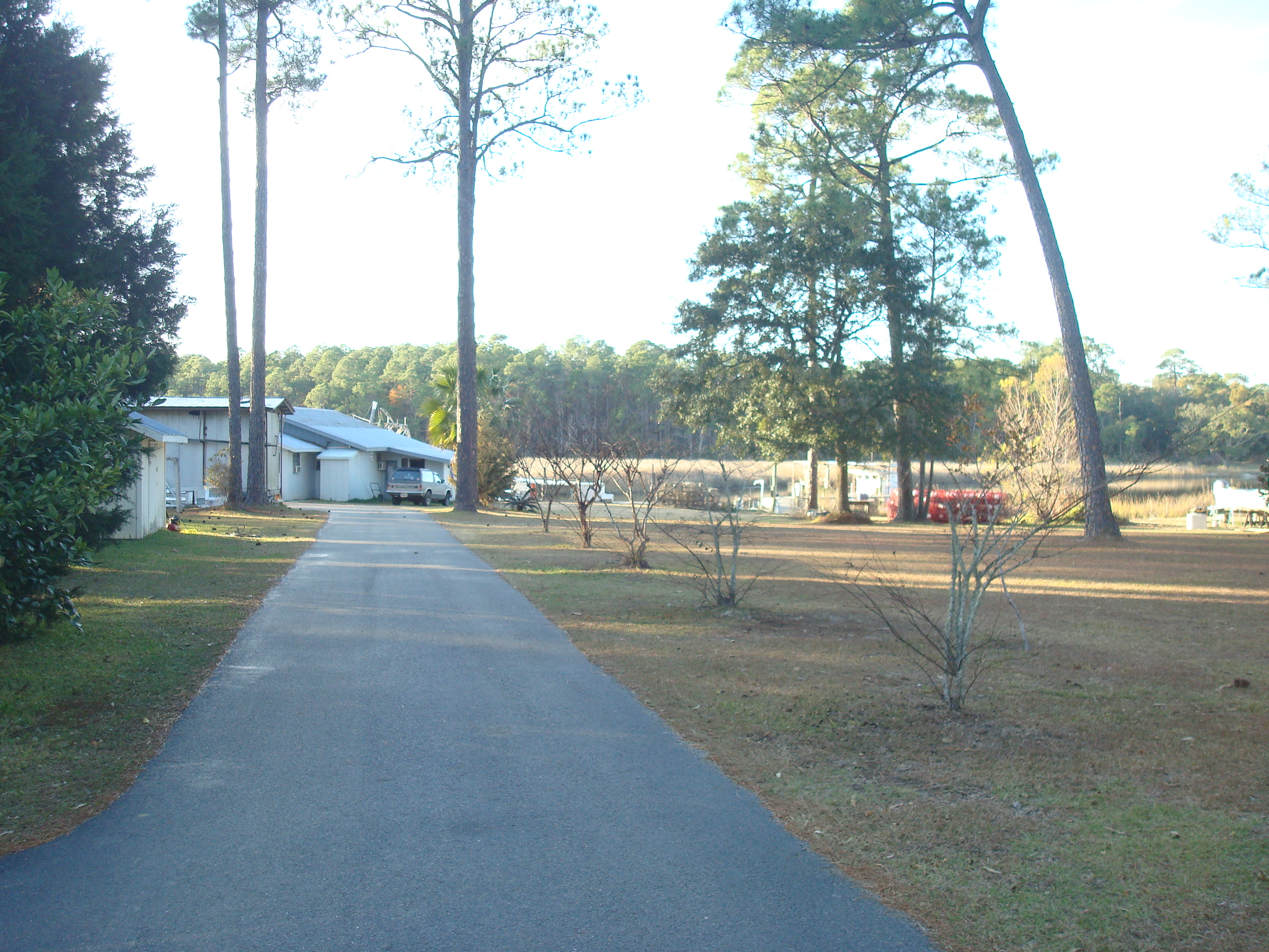 Photos from our visit to Zirlott's Zeafood place in Coden, AL.